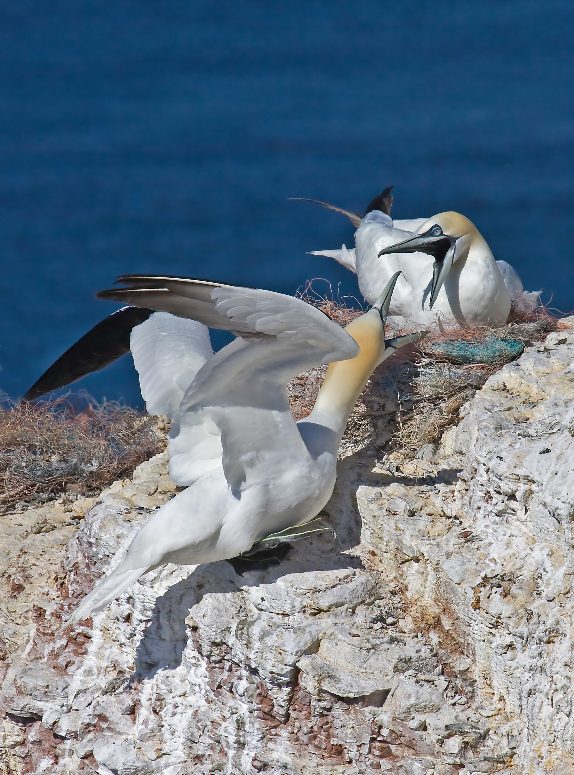 Northern Gannet